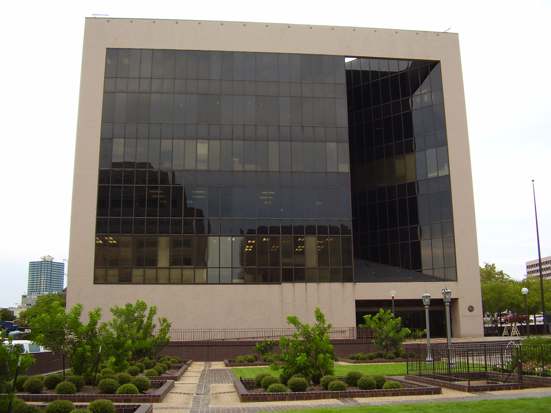 The Texas Law Center - Has the offices of the State Bar of Texas